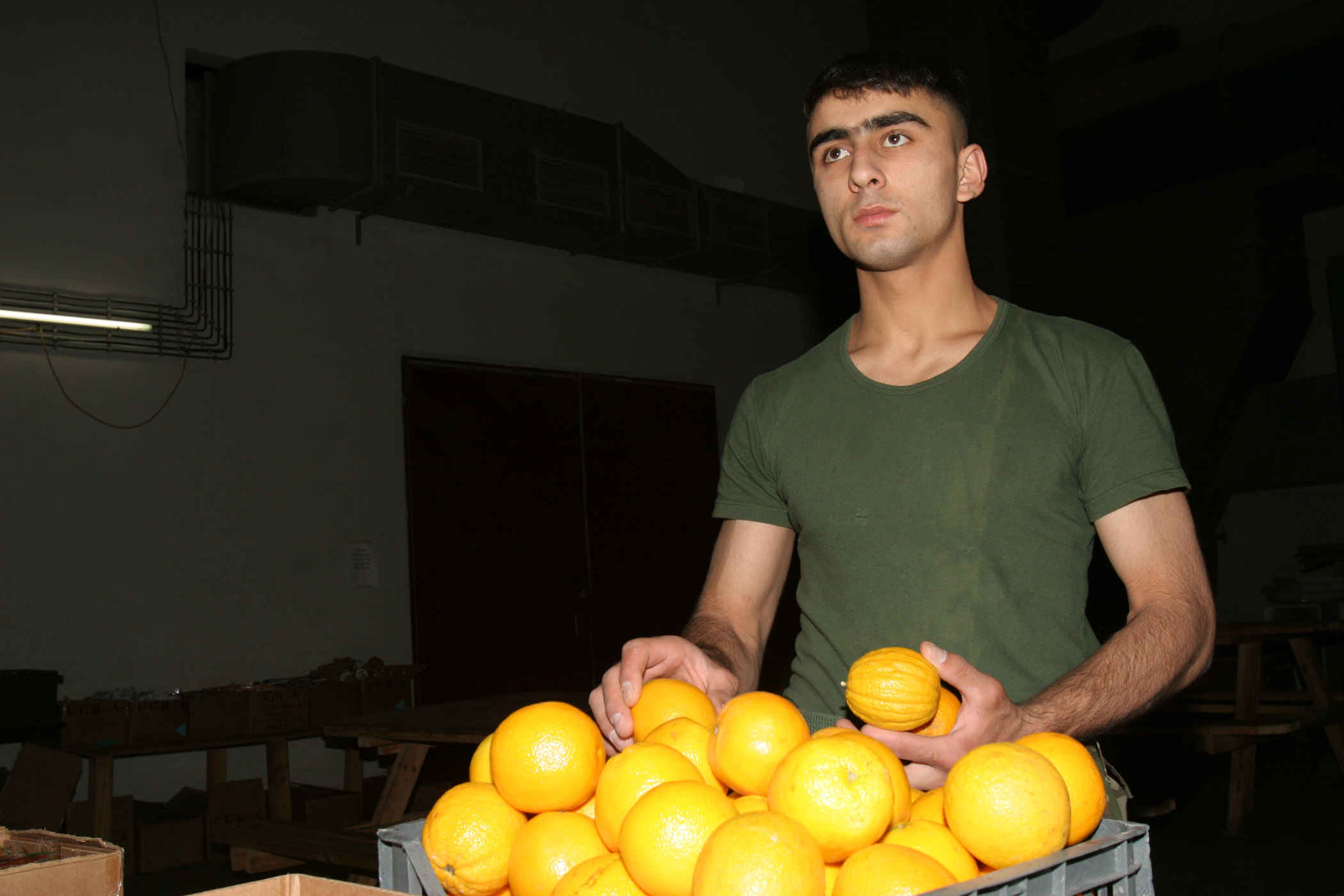 Azerbaijani private Habib Ezizov sorts fresh oranges in the dam's mess hall. The Azerbaijanis provide soldiers to help serve breakfast and dinner in addition to their guard duties in Hadithah, Al Anbar, Iraq.